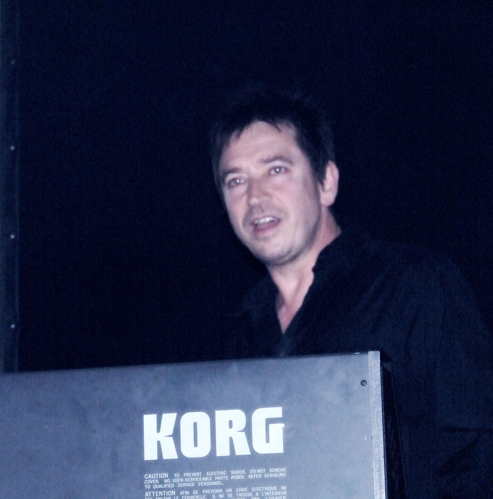 Alan Wilder, an English keyboardist. A former member (1982-1995) of "Depeche Mode".